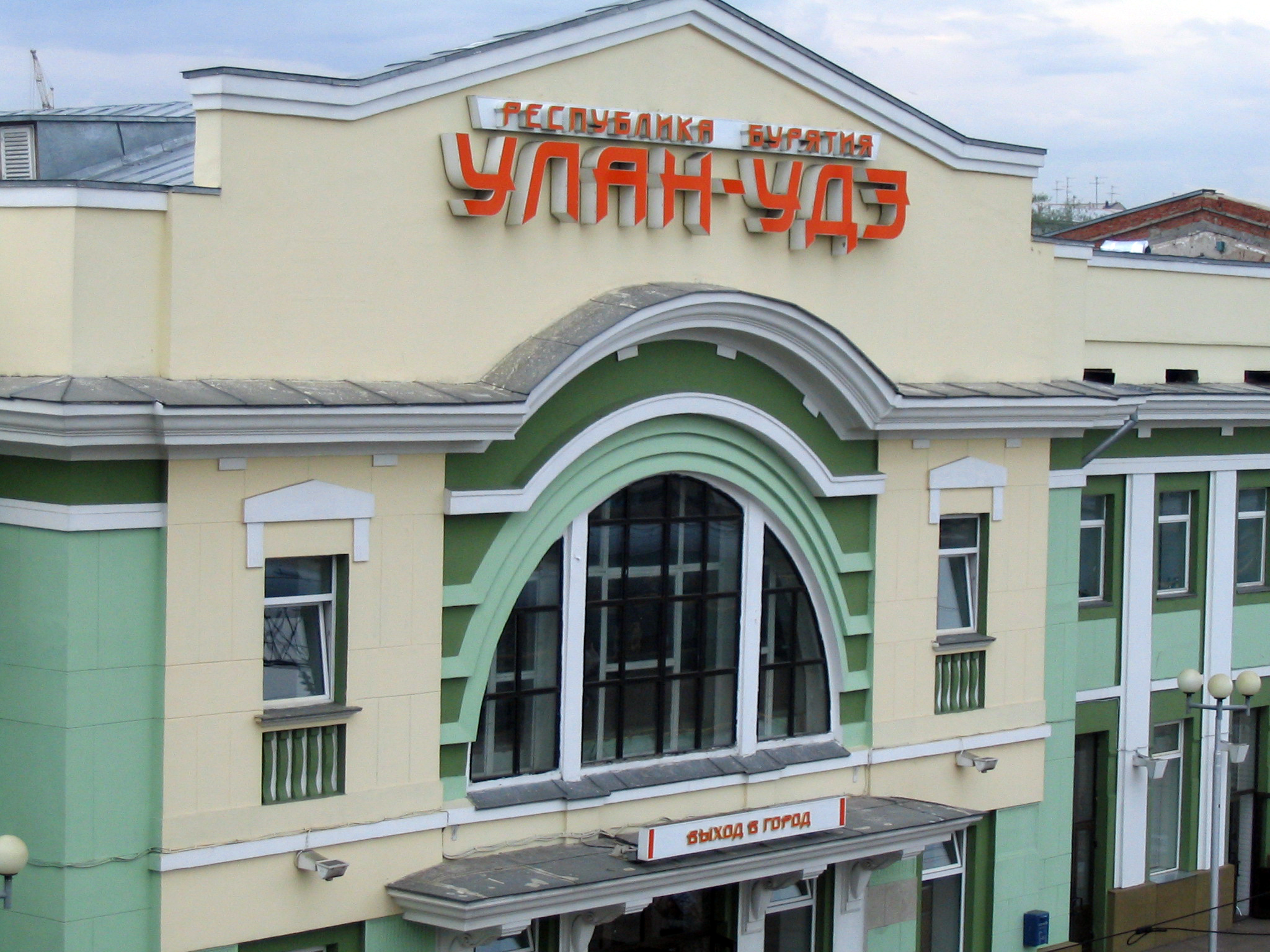 Picture of Ulan Ude train station on the trans-Siberian railway. Taken by me 7/06, released into public domain